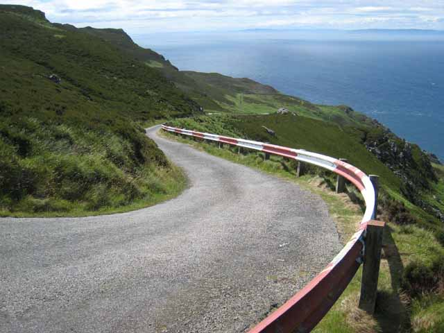 The road to the Lighthouse, Mull of Kintyre A tortuous public road leads up to the Gap. Beyond there, an even steeper and more tortuous private road leads down the precipitous hillside to the lighthouse at the Mull of Kintyre. Rathlin Island (Northern Ireland) can be clearly seen on the horizon.